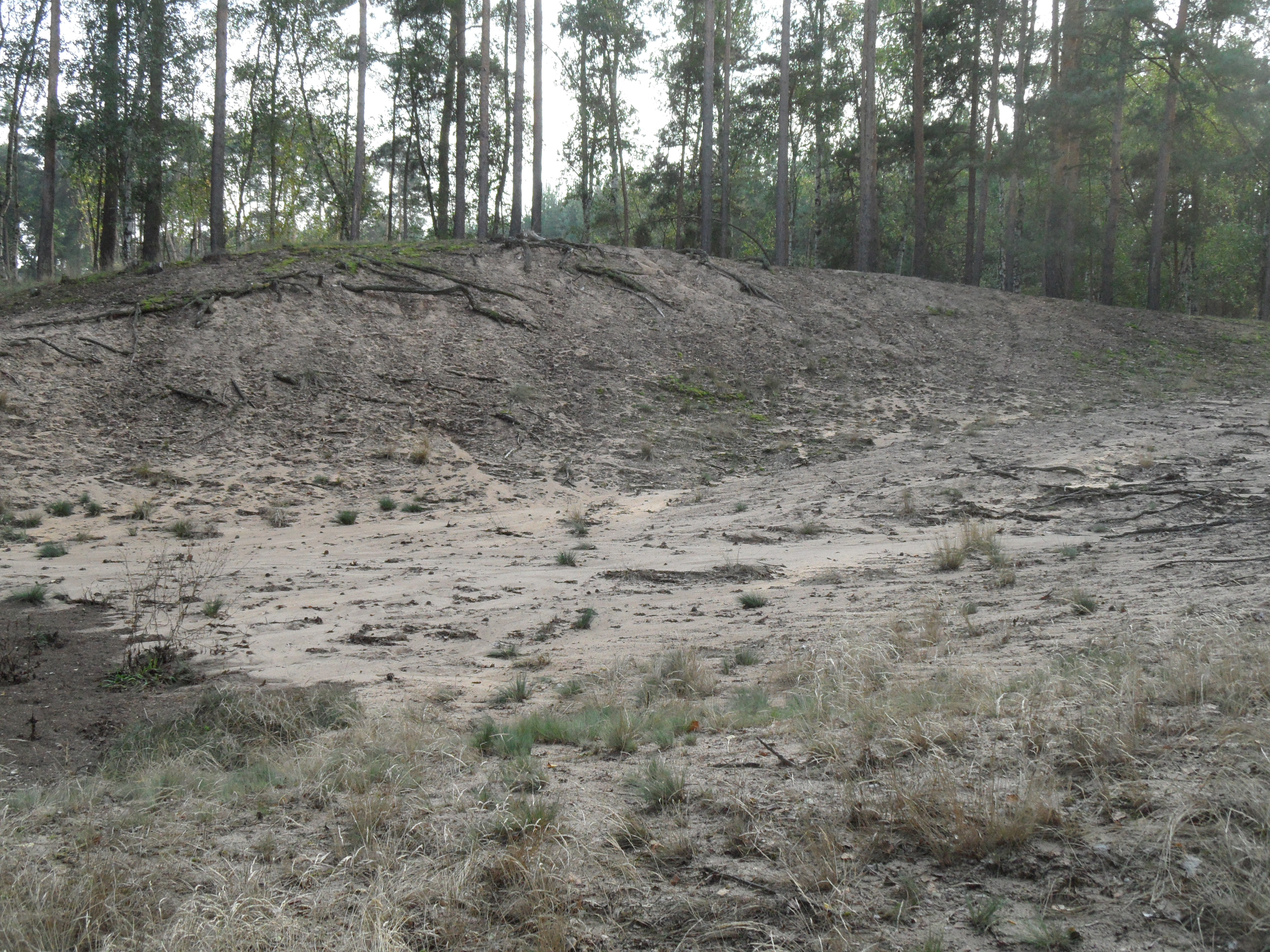 Natural Monument Písečný přesyp u Osečka, Nymburk District, the Czech Republic.